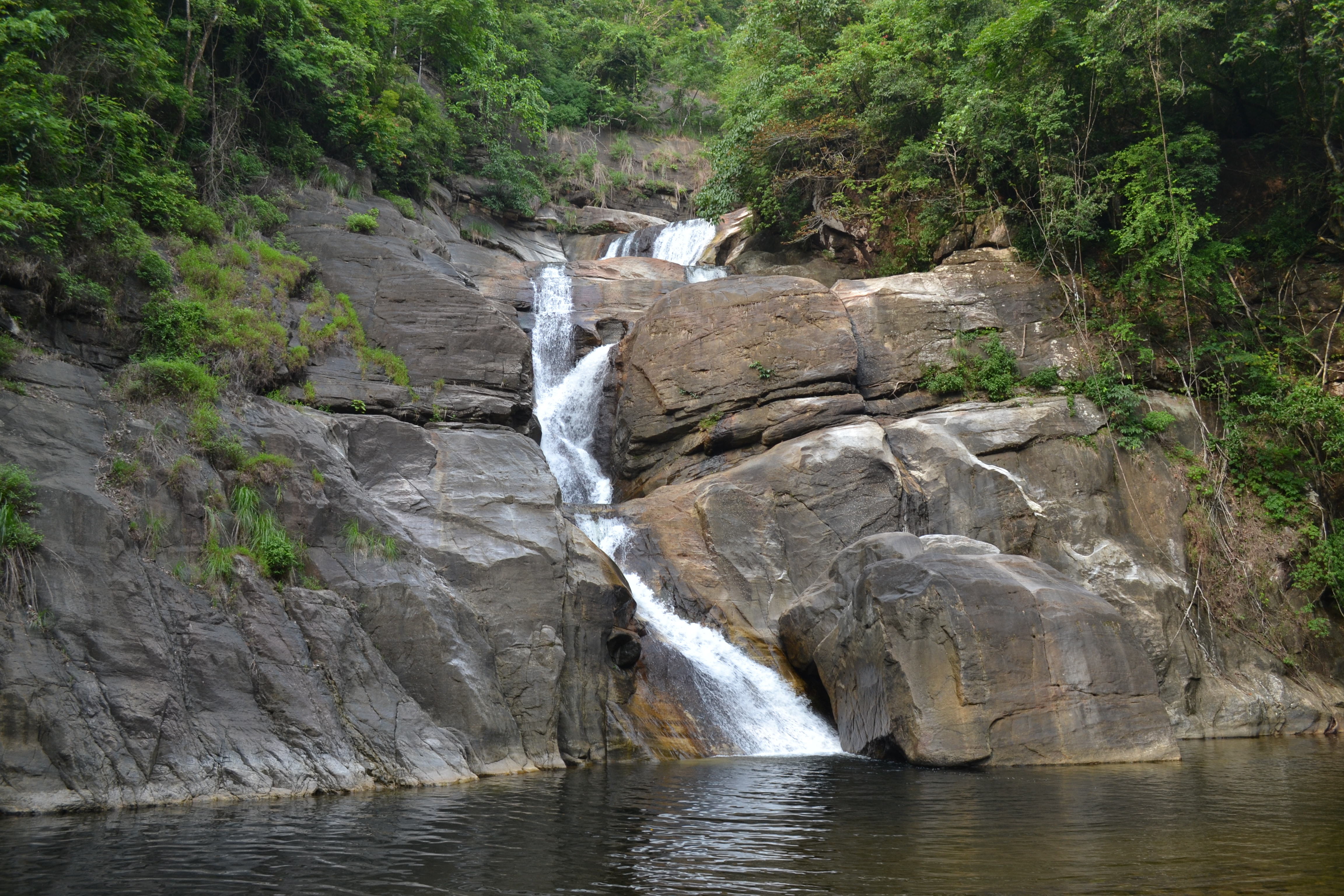 Meenmuty waterfall, Thiruvananthapuram, Kerala